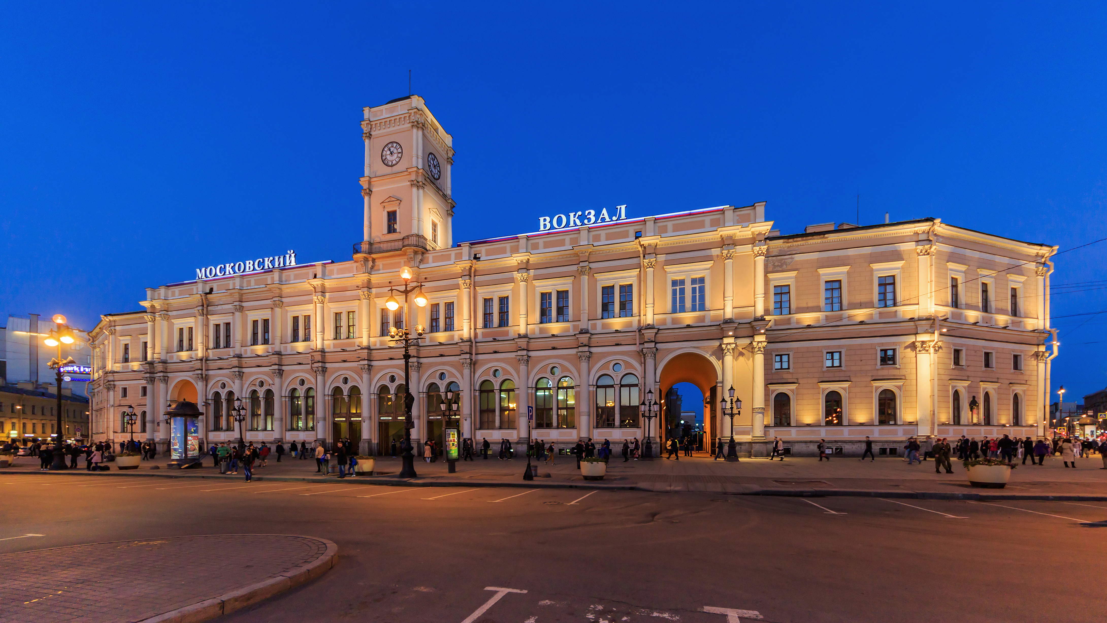 Building of Moskovsky railway terminus in Saint Petersburg (Russia).